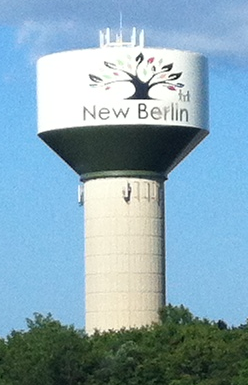 New Berlin WI watertower